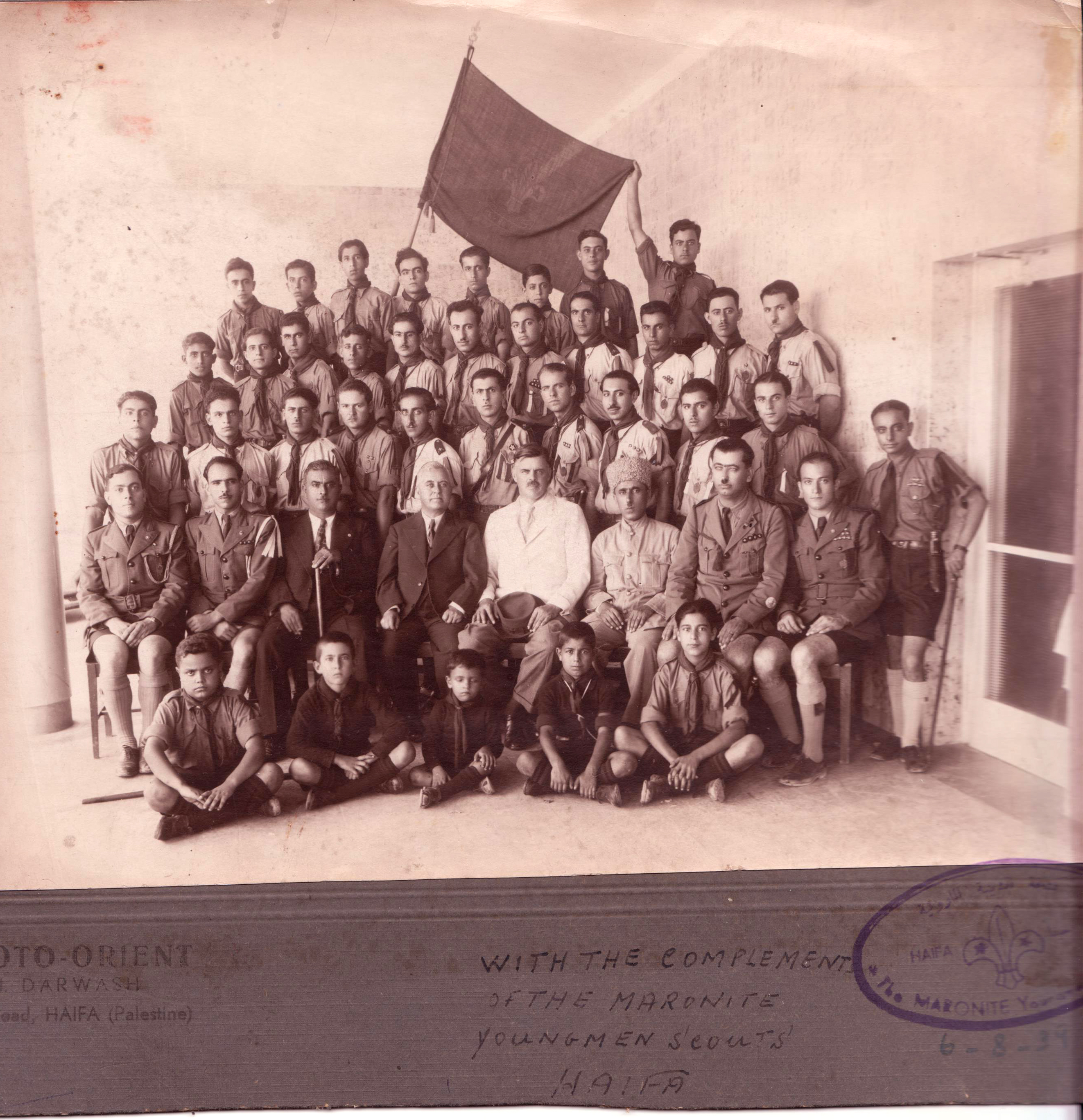 Haifa Maronite Boy Scouts, August 1939. Center: Dr John Macqueen